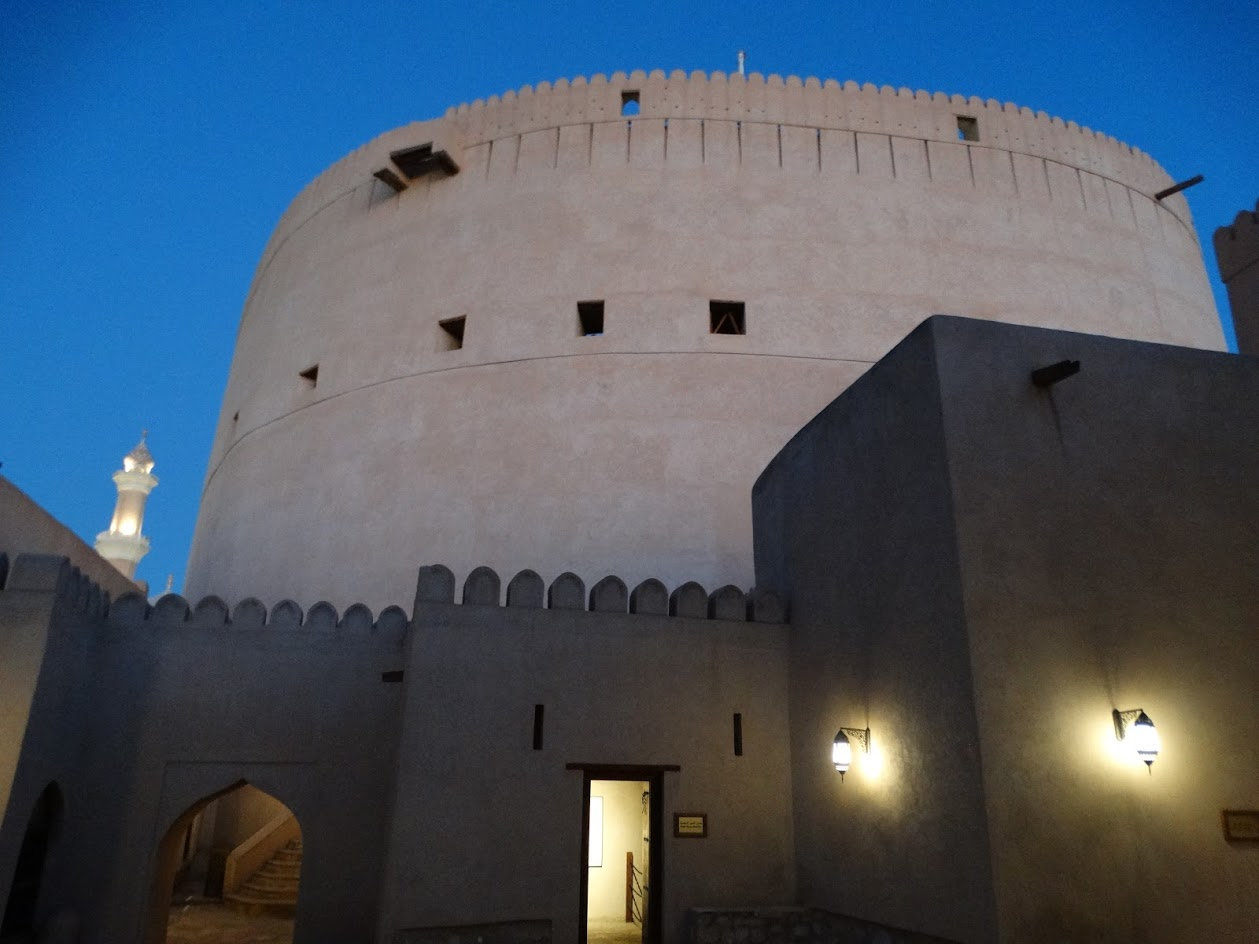 Nizva Fort